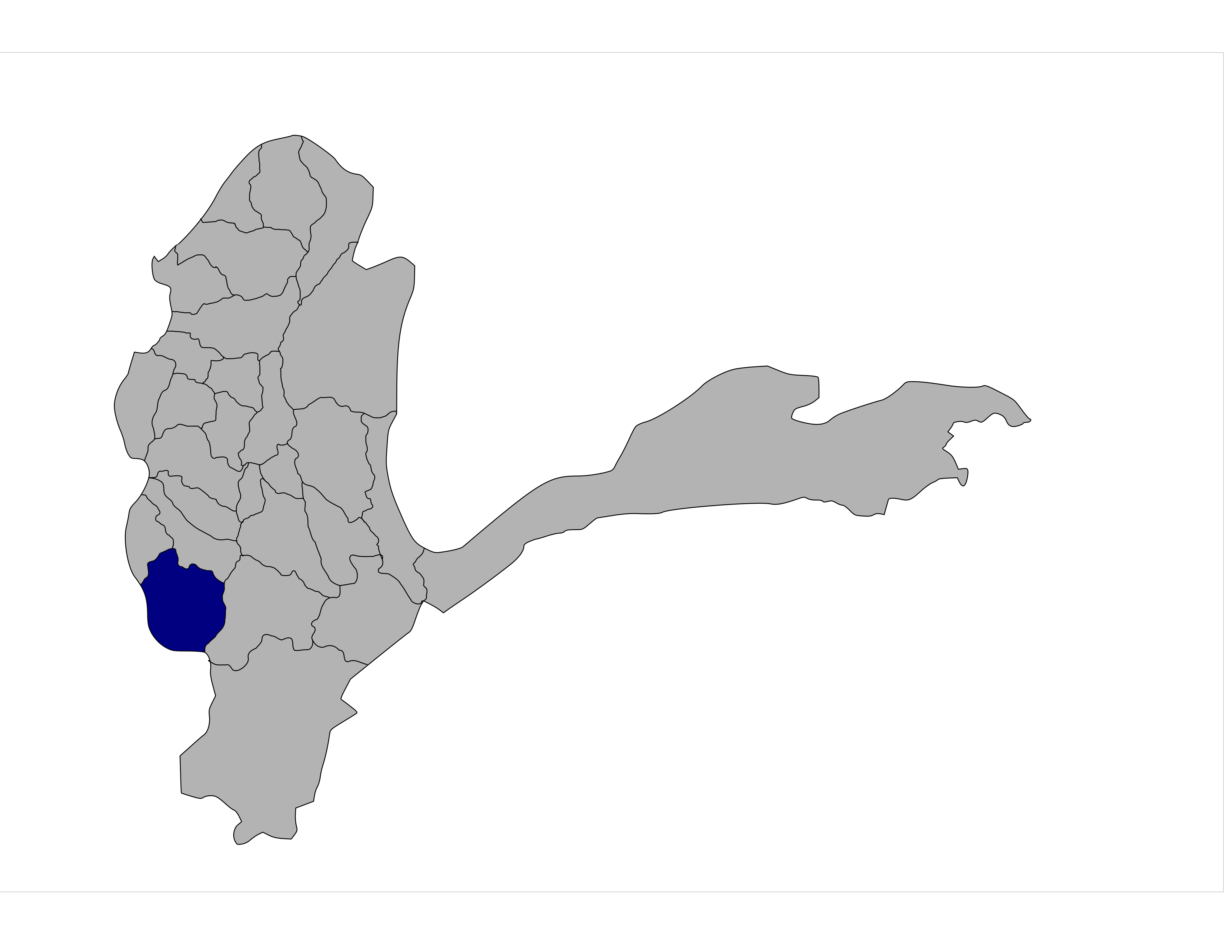 Shows the boundaries of Tagab District, Badakhshan Province, Afghanistan.